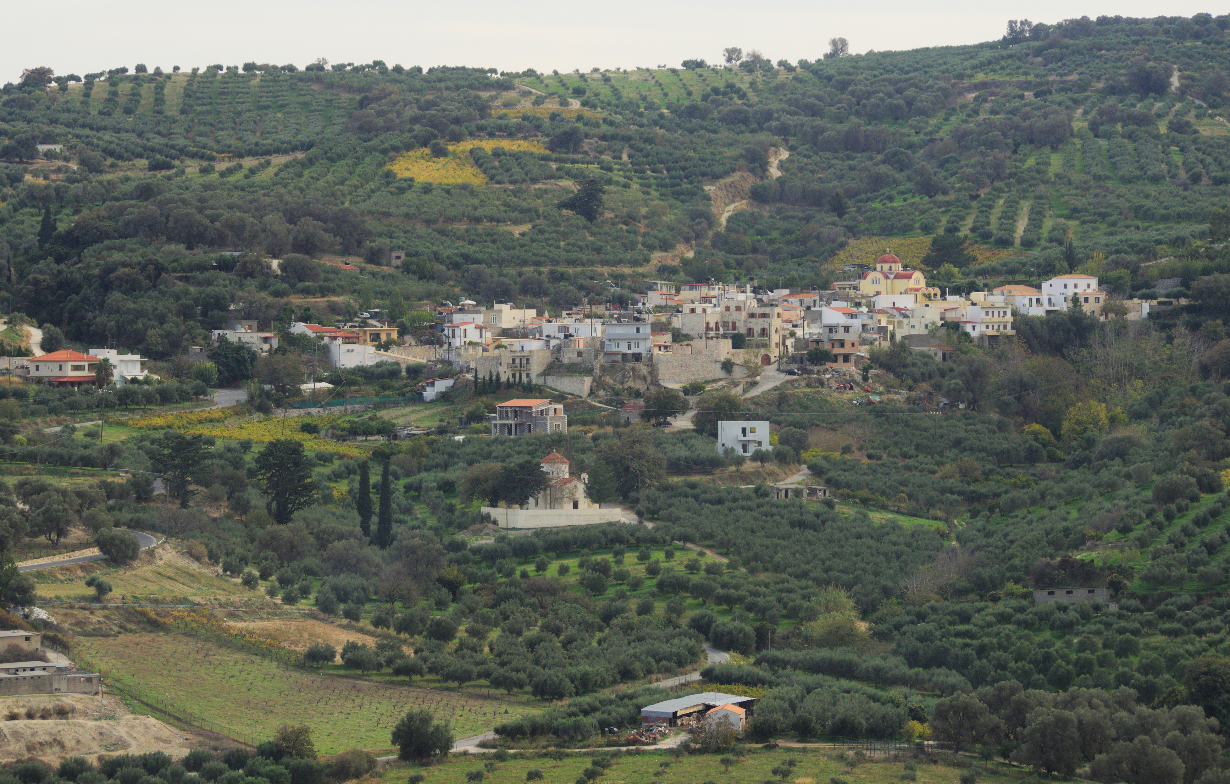 View of Keramoutsi from Moni, at the west.